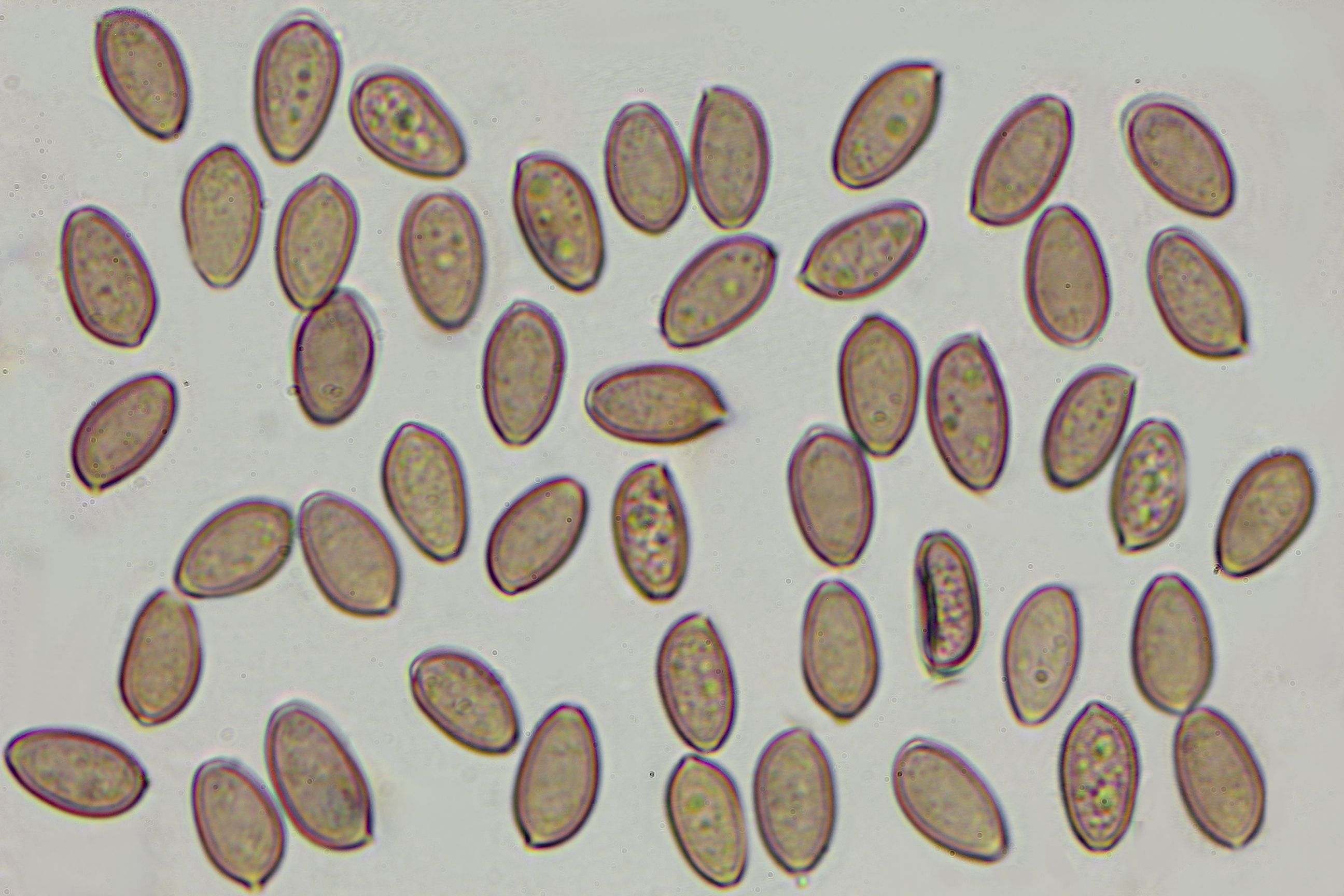 This image is Image Number 300964 at Mushroom Observer, a source for mycological images. This tag does not indicate the copyright status of the attached work. A normal copyright tag is still required. See Commons:Licensing for more information.